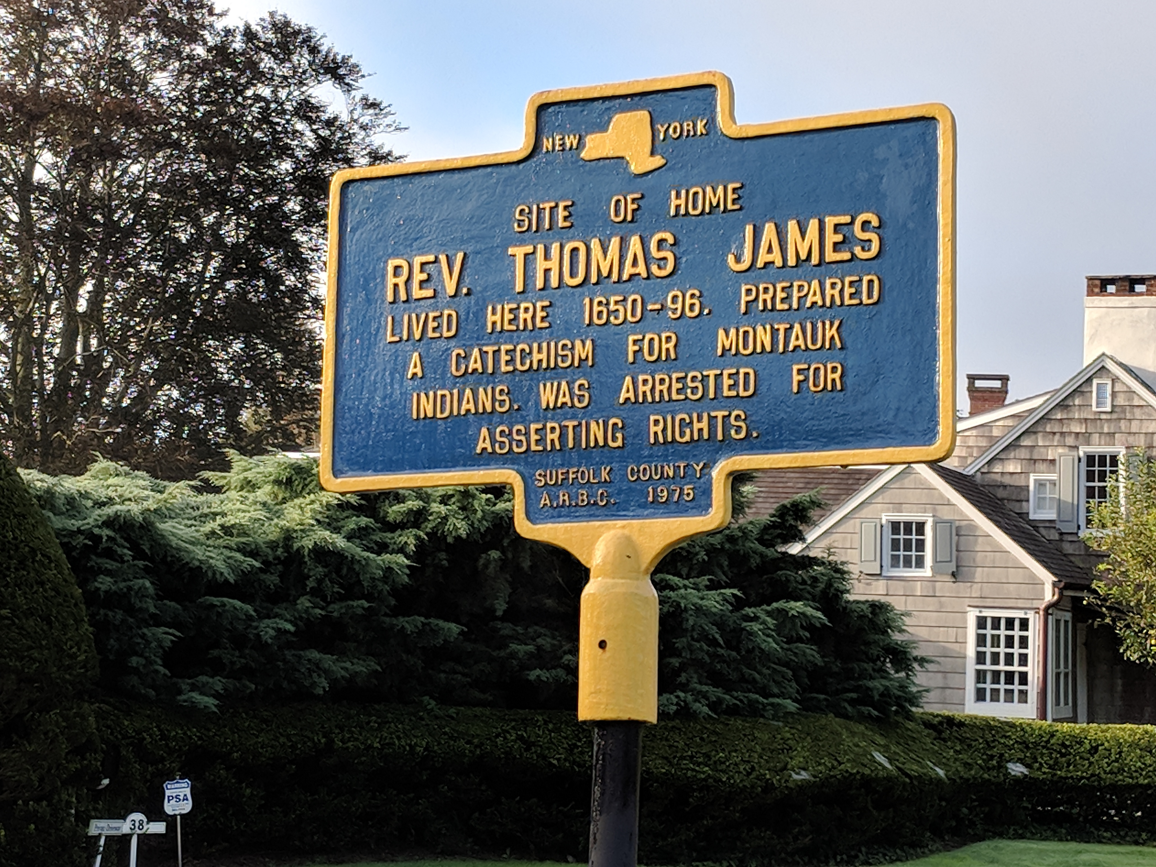 REv Thomas James marker is across James lane from South End graveyard, where Lion Gardiner is buried.